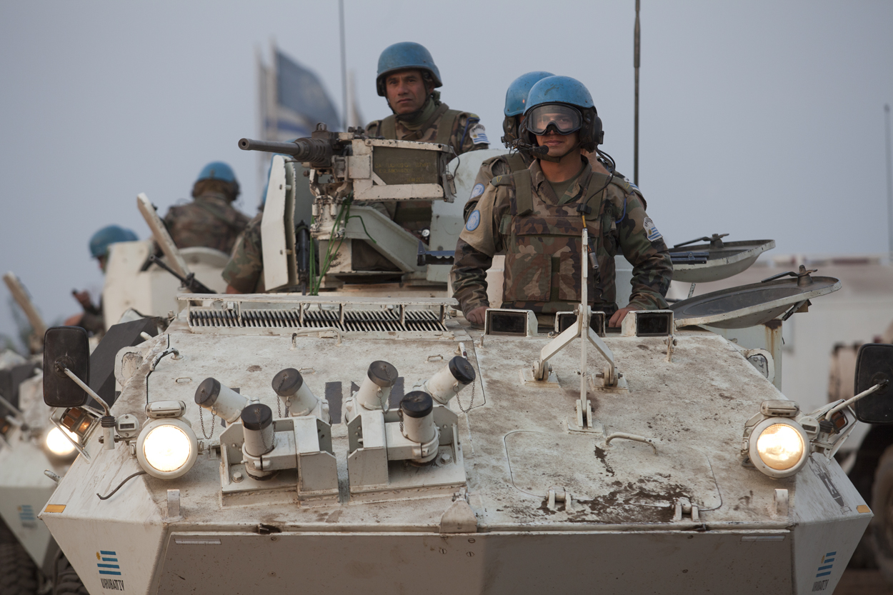 MONUSCO Urubatt armored vehicles patroling streets of Goma for civil protection , the 13th of July 2012 . © MONUSCO/Sylvain Liechti